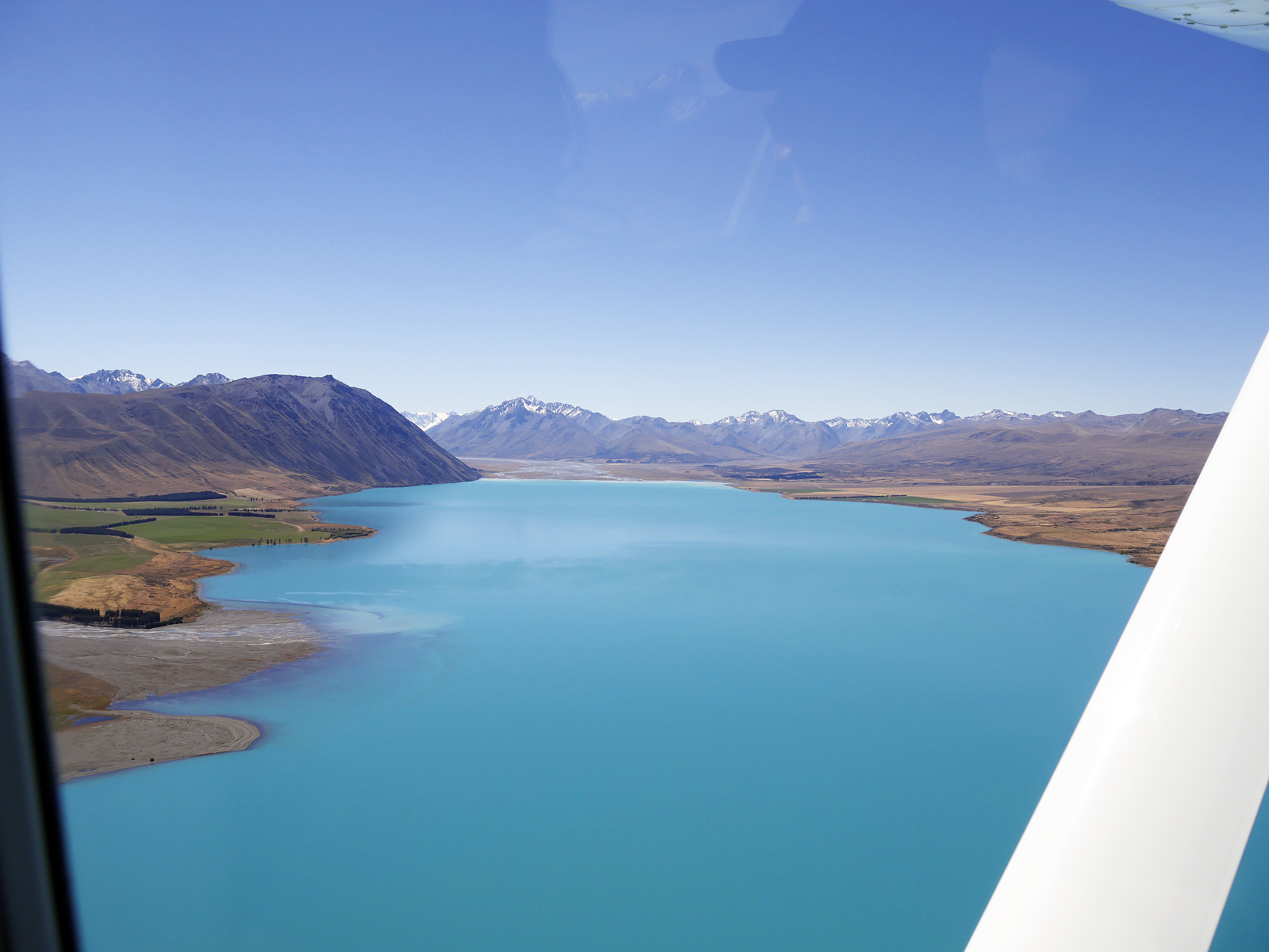 Lake Tekapo, Mackenzie District, Canterbury Region, South Island, New Zealand (aerial photo, view from south)